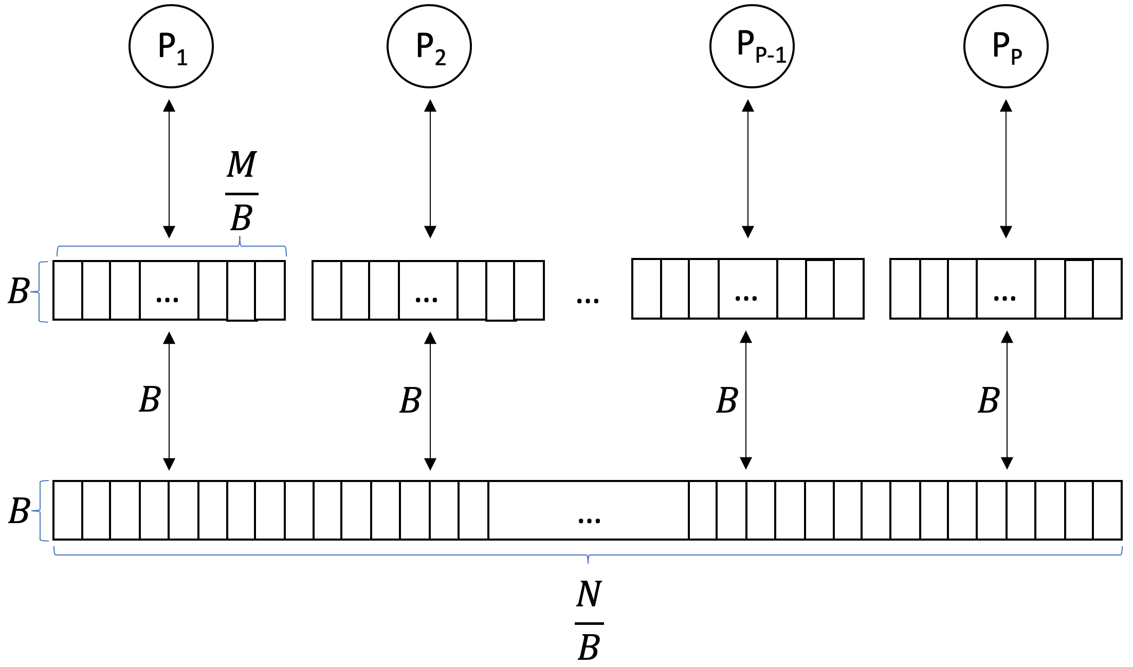 This figure illustrates the parallel external memory model. It shows the two-level memory hierarchy and the communication between the P processors, their caches and the main memory.